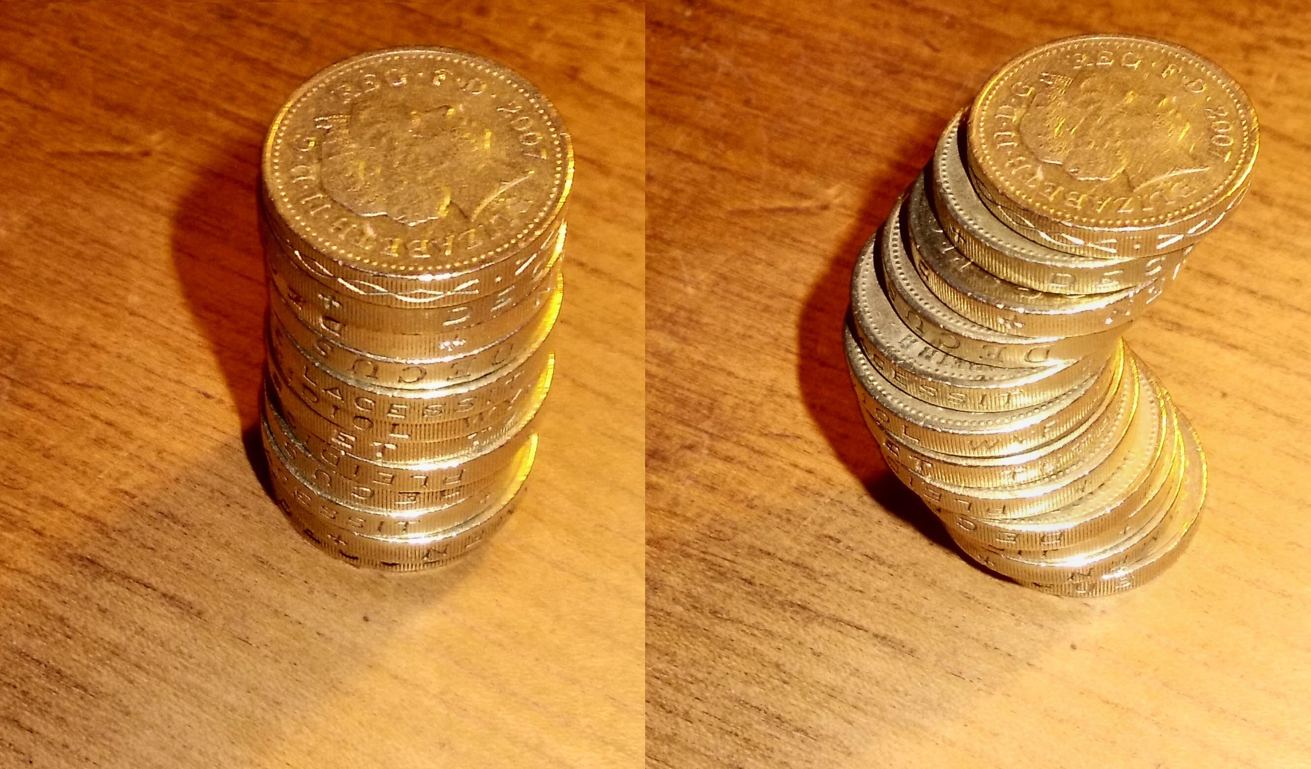 A stack of coins illustrates the method of indivisibles named after the mathematician Bonaventura Cavalieri.